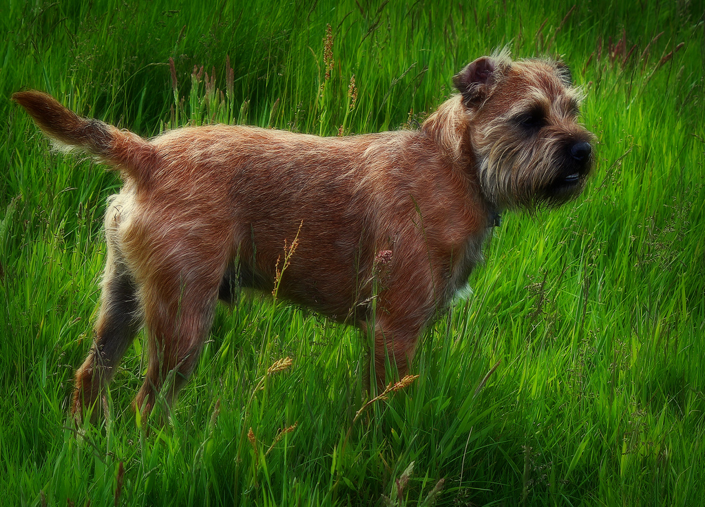 Border Terrier